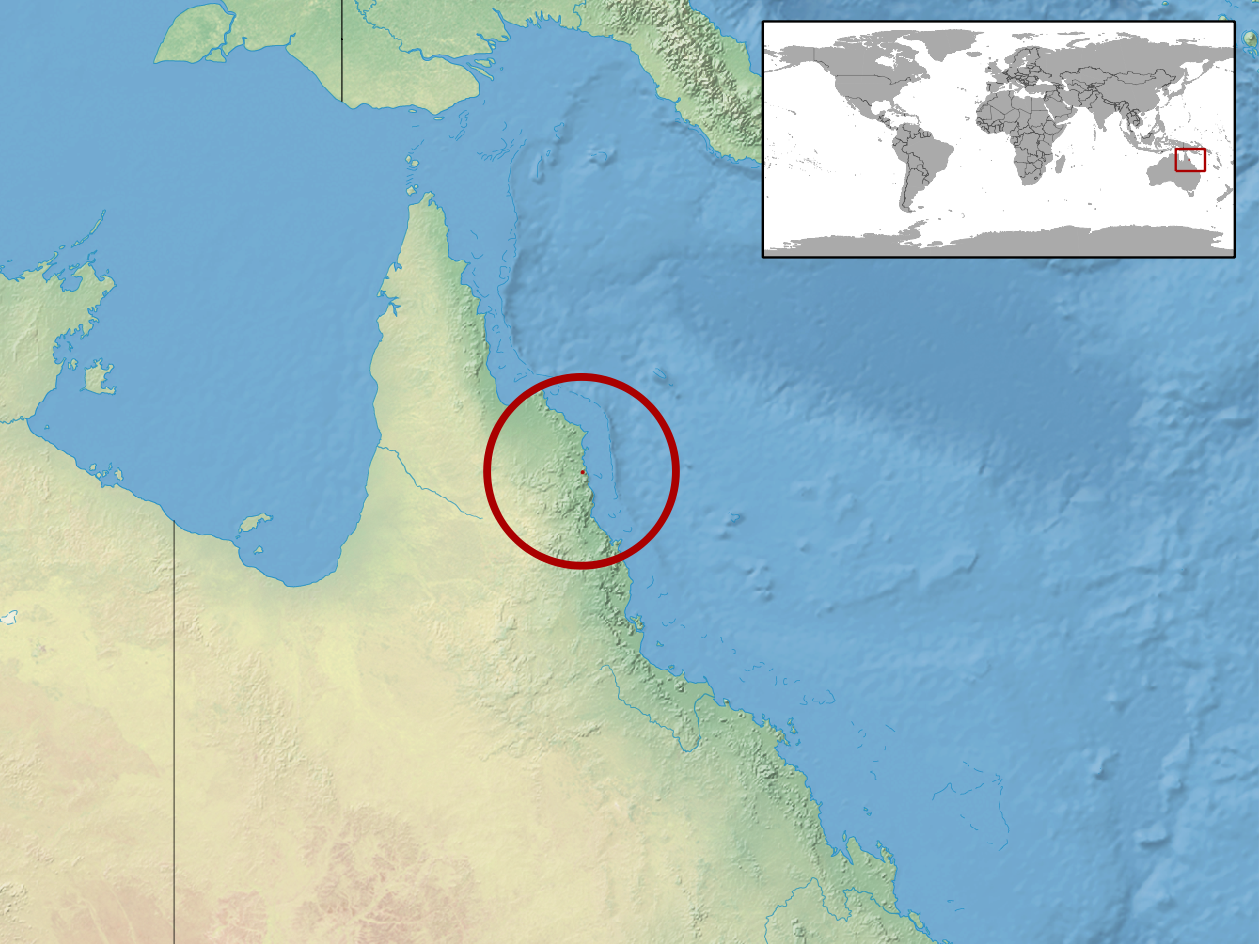 geographic distribution of Liburnascincus scirtetis